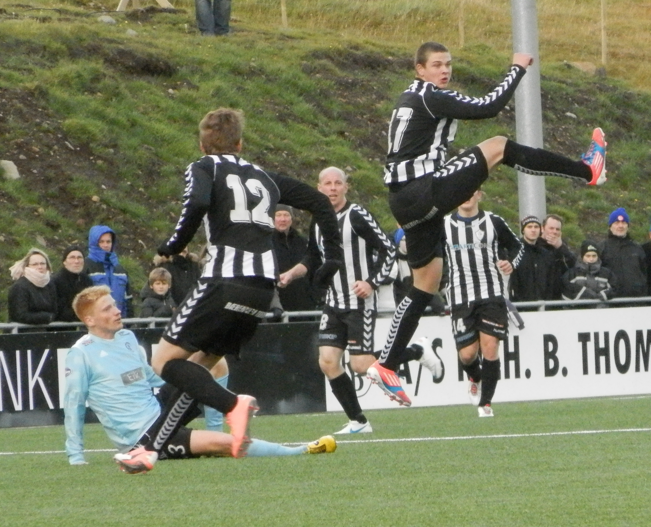 Football match in Effodeildin (the Faroese Premier League) on 16 September 2012 between TB Tvøroyri and Víkingur Gøta. The result was 2-2. The match was played Við Stórá in Trongisvágur, which is the home field of TB Tvøroyri.